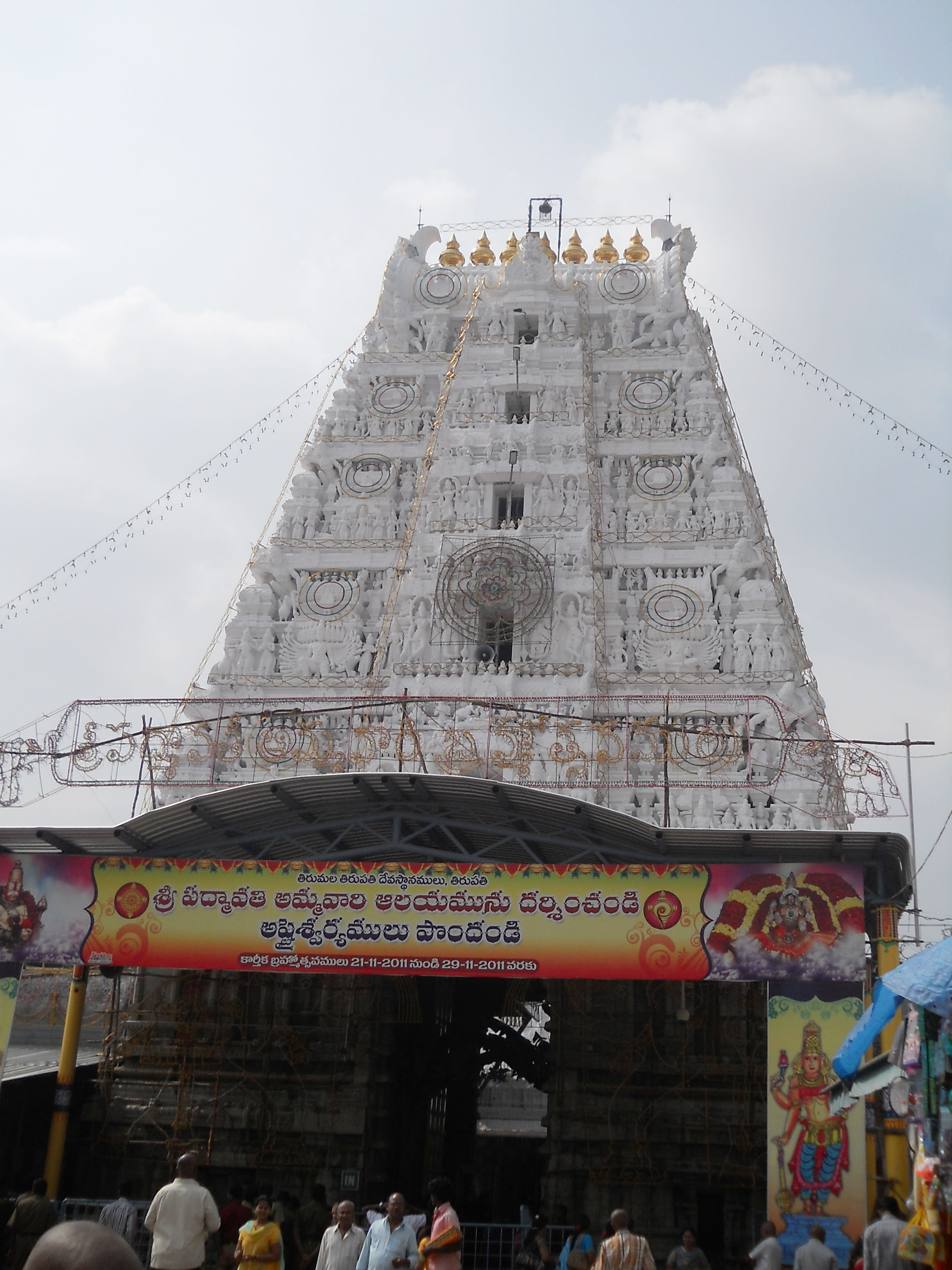 Padmavathi Ammavari Temple, Alamelu Mangapura, AP